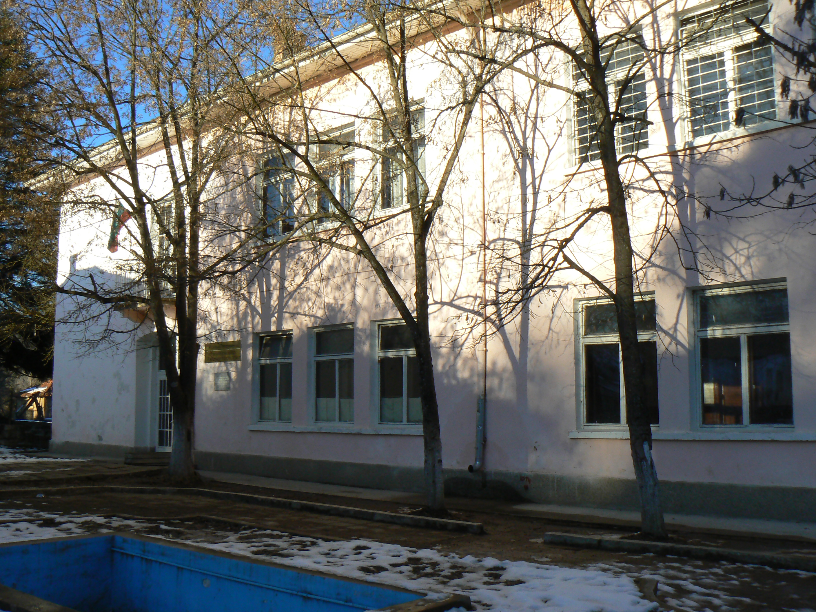 The elementary school "Kliment Ohridksi" in village Treklyano, Bulgaria